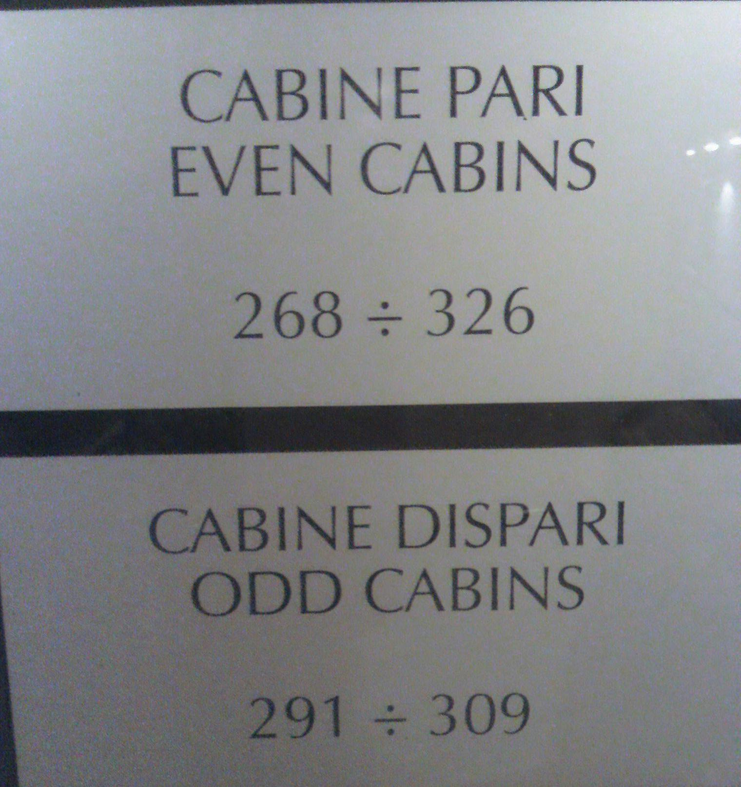 Use of 'obelus' sign to signify numeric interval in Italy